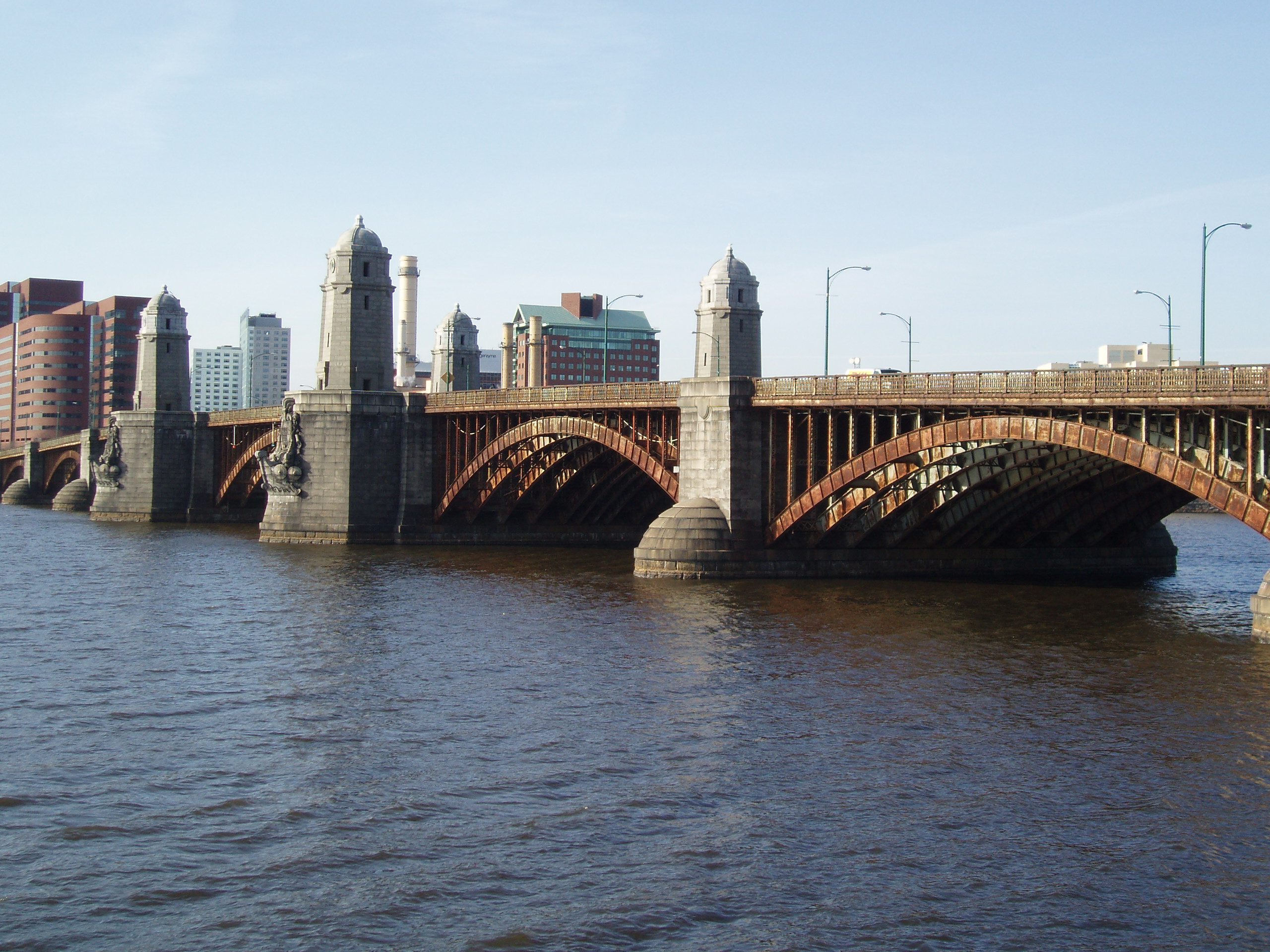 The Henry Wadsworth Longfellow Bridge in Boston, Massachusetts. It spans the Charles River.